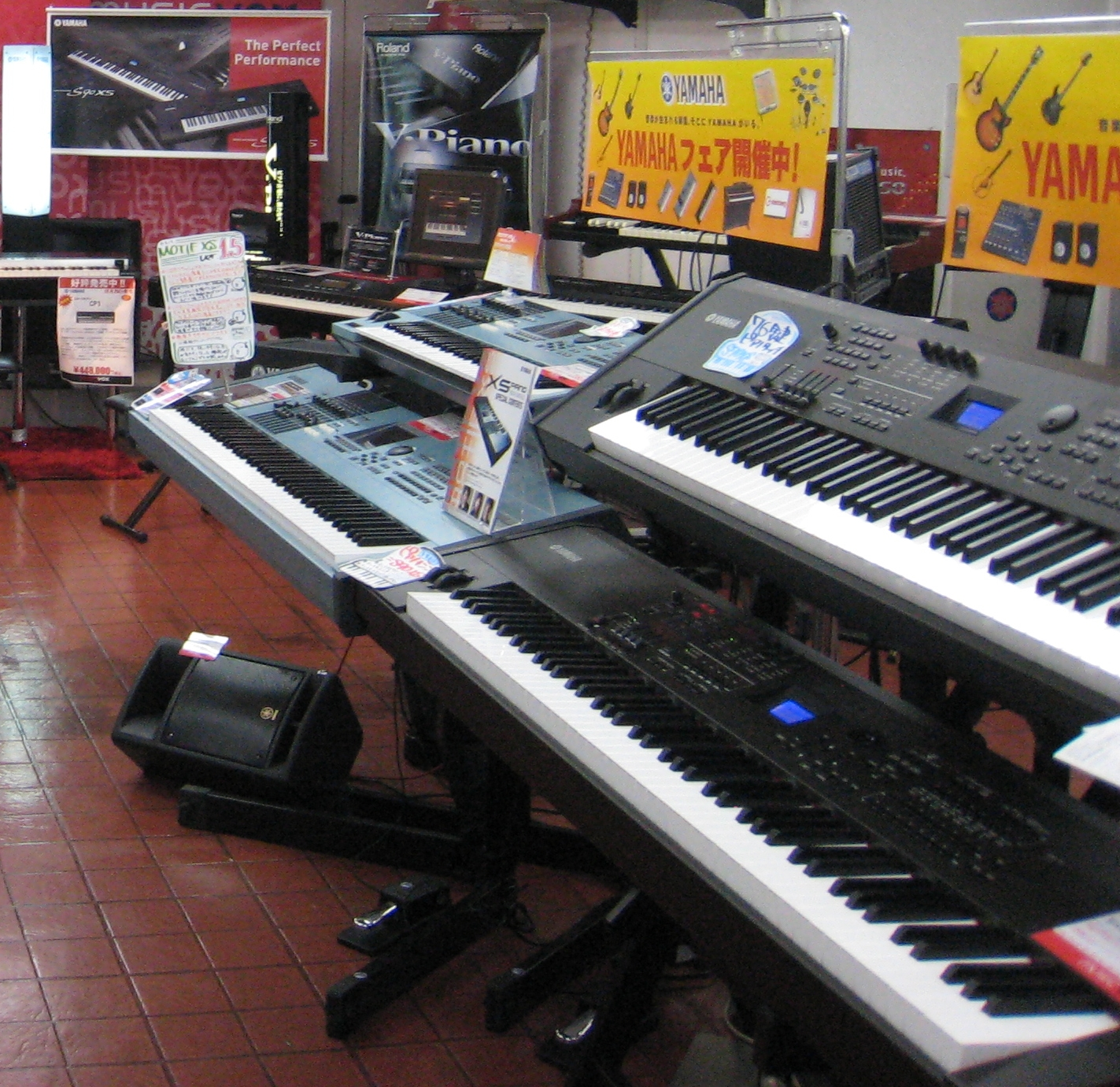 Yamaha Motif series left Yamaha Motif XS 6 (rear top) Yamaha Motif XS 8 (rear bottom) right Yamaha S90XS (front top) Yamaha S70XS (front bottom)